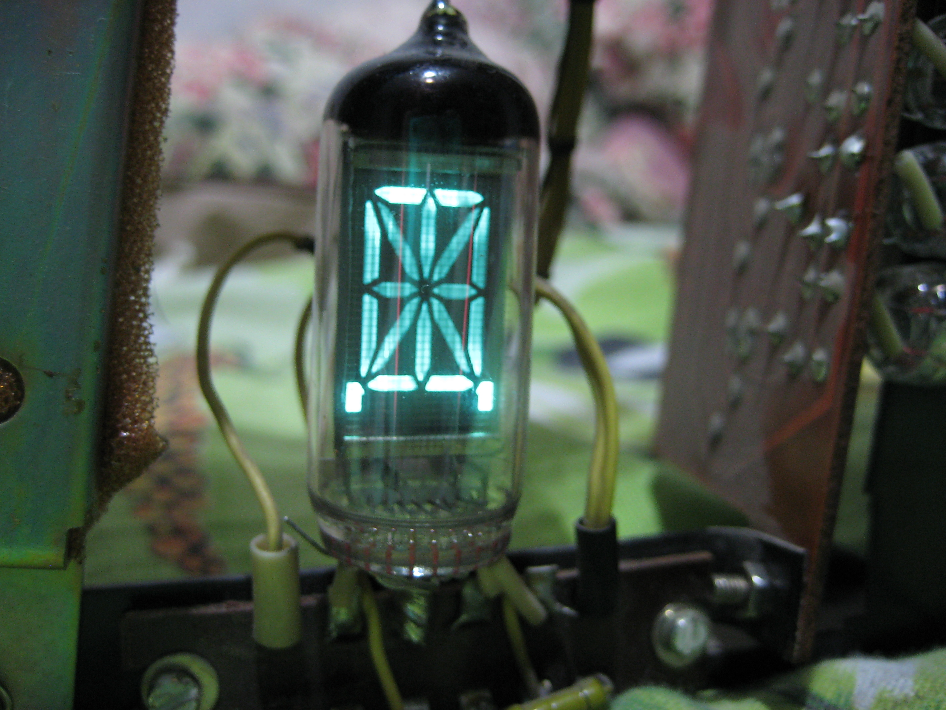 IV-4 vacuum fluorescent display with all segments glow